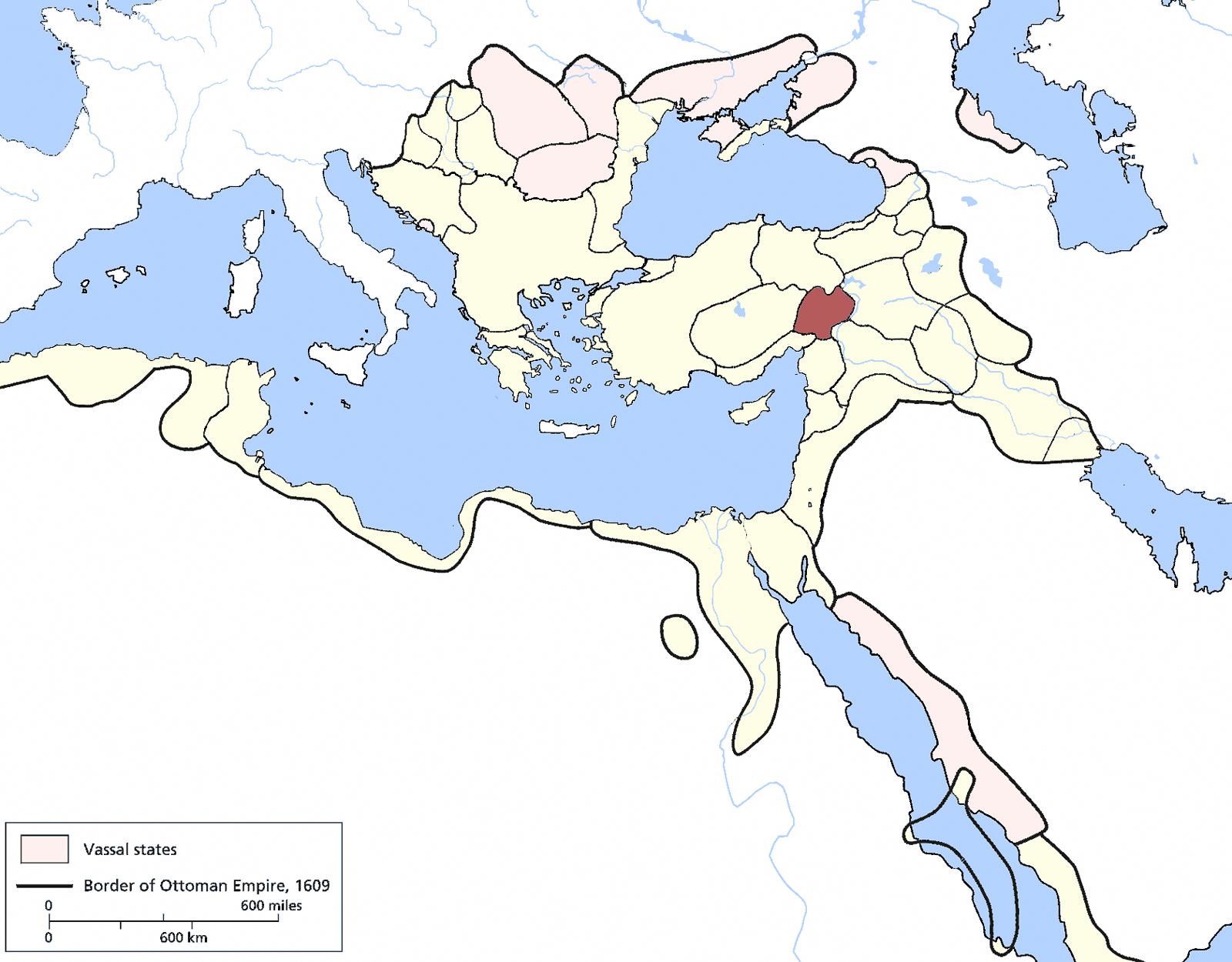 Dulkadir Eyalet, Ottoman Empire (1609). Source: Encyclopedia of the Ottoman Empire at Google Books By Gábor Ágoston, Bruce Alan Masters